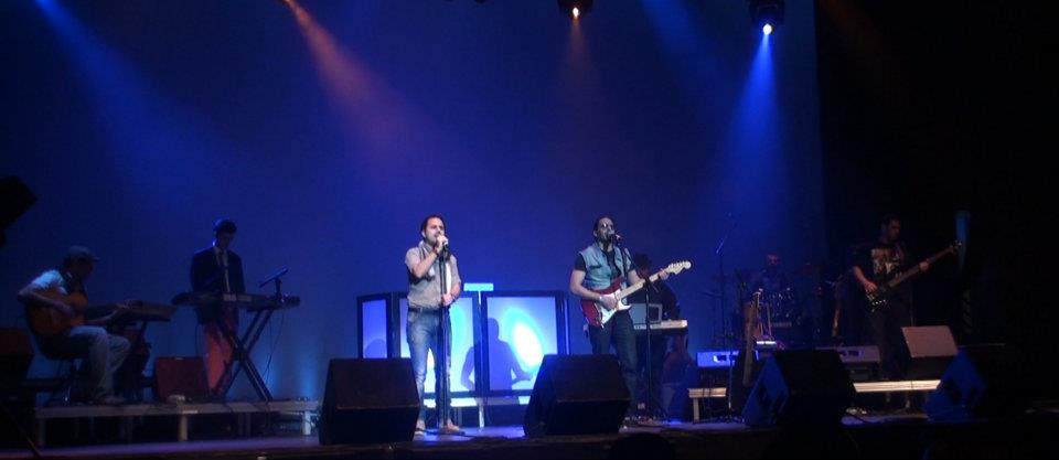 this picture is taken in DC